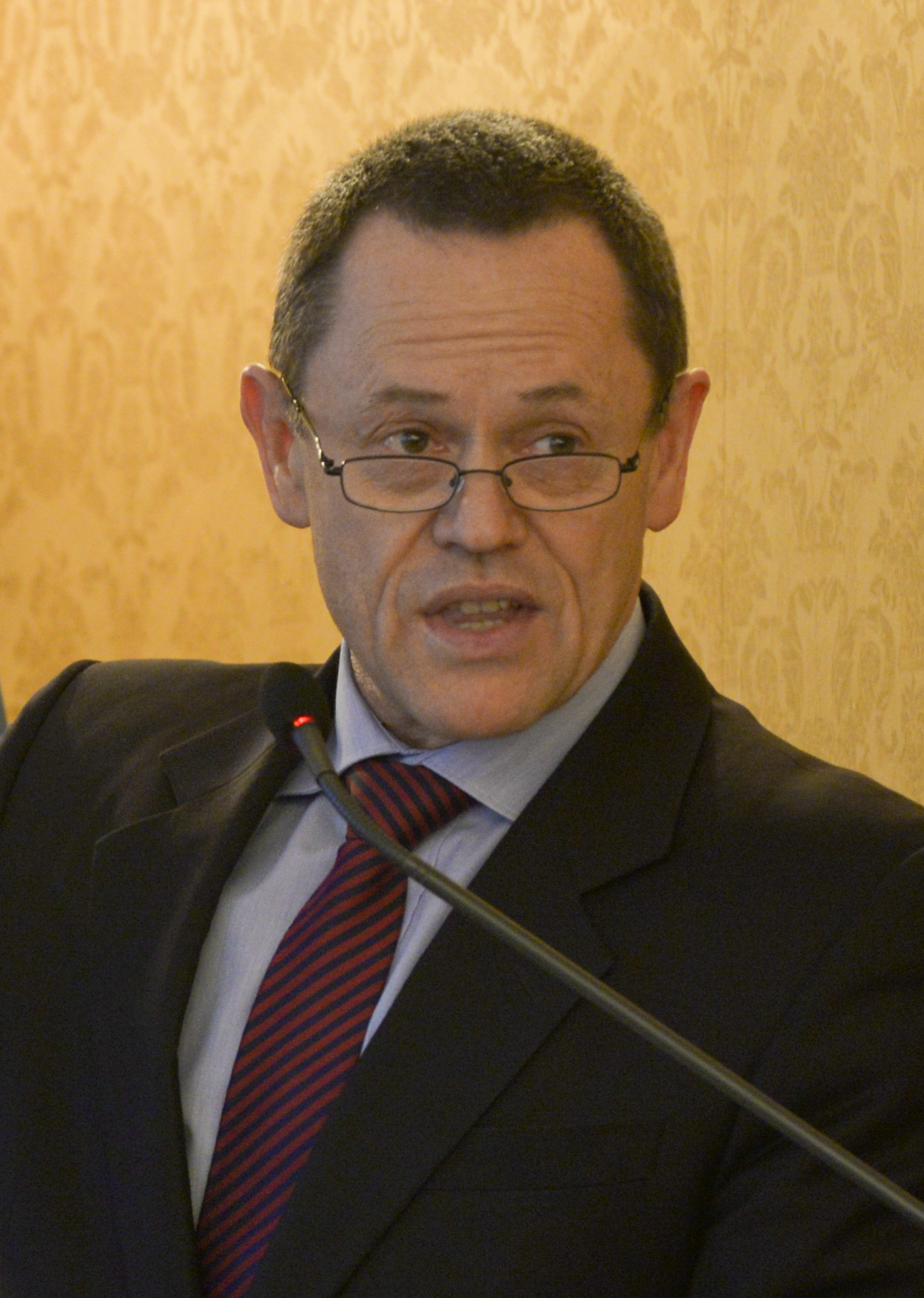 Crop of Simon Upton during a sustainable development forum in Lichteštejn Palace, Prague